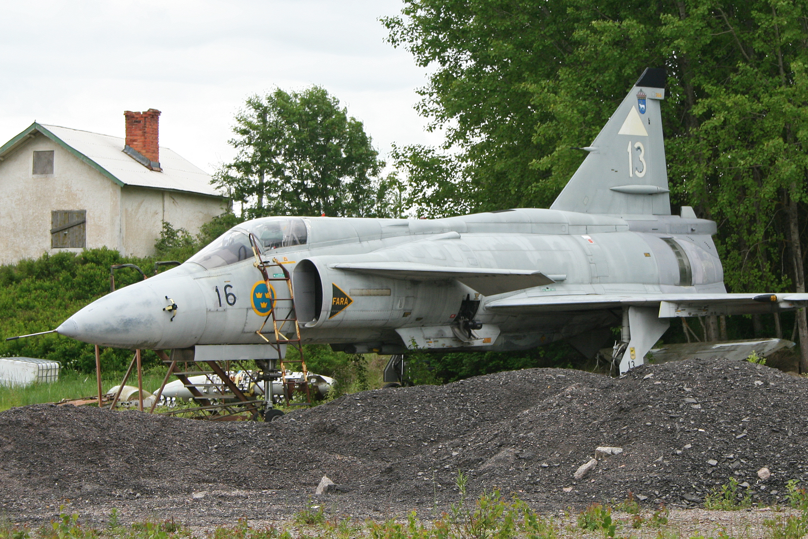 Still carrying F 16 unit markings but now sadly on the dump at Linkoping, this Viggen still seems to be complete and in good condition. msn 37-366. Linkoping (Saab). 04-6-2012.